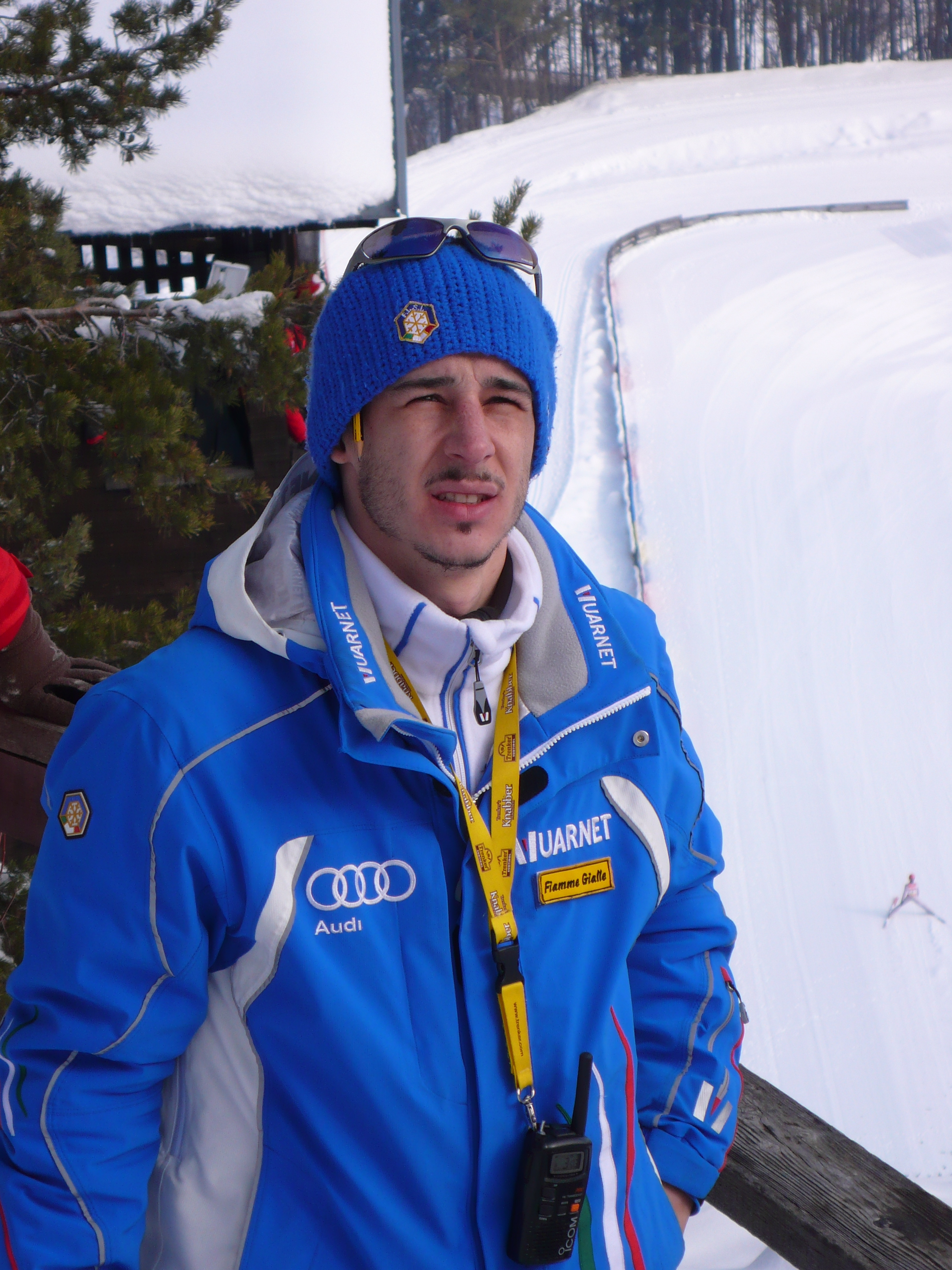 Alessio Bolognani, coach of the italian skijumping ladies team during 2009/2010